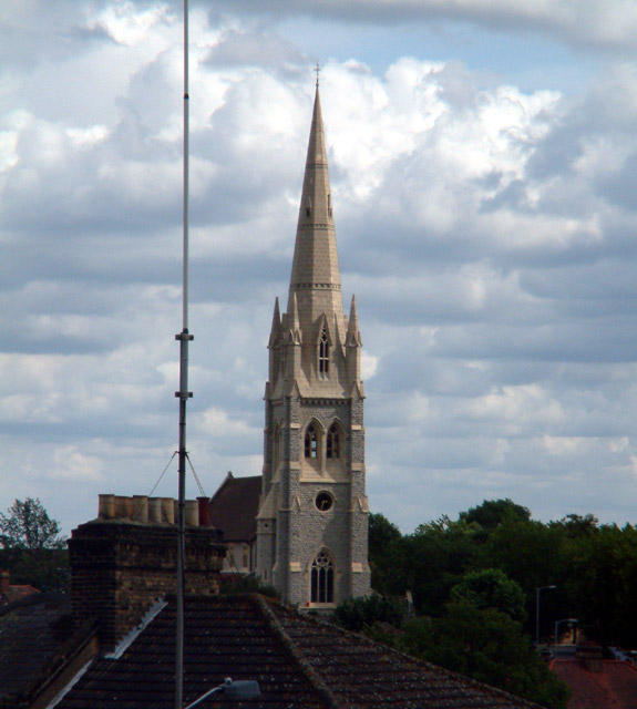 Christ Church, Forest Hill SE23. This view was from the footbridge at Forest Hill station. A grade 2 listed building, it was begun in 1852 and consecrated in 1854. The spire was completed in 1885. The church was declared redundant in July 2003 and was due to be converted into residential accommodation with a small place of worship created in the chancel.